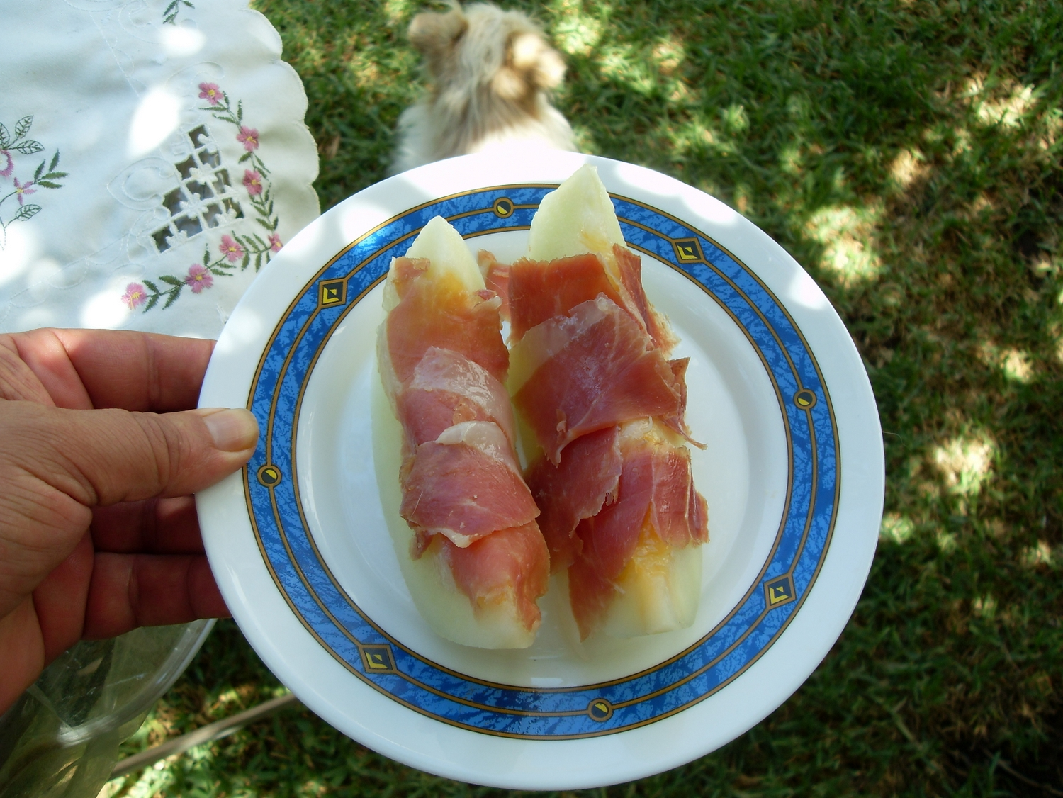 Melon with ham, cuisine of Spain.